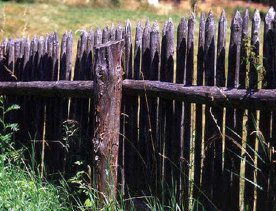 paling fence Fotograf: Walter J.Pilsak Copyright Status: GNU Freie Dokumentationslizenz